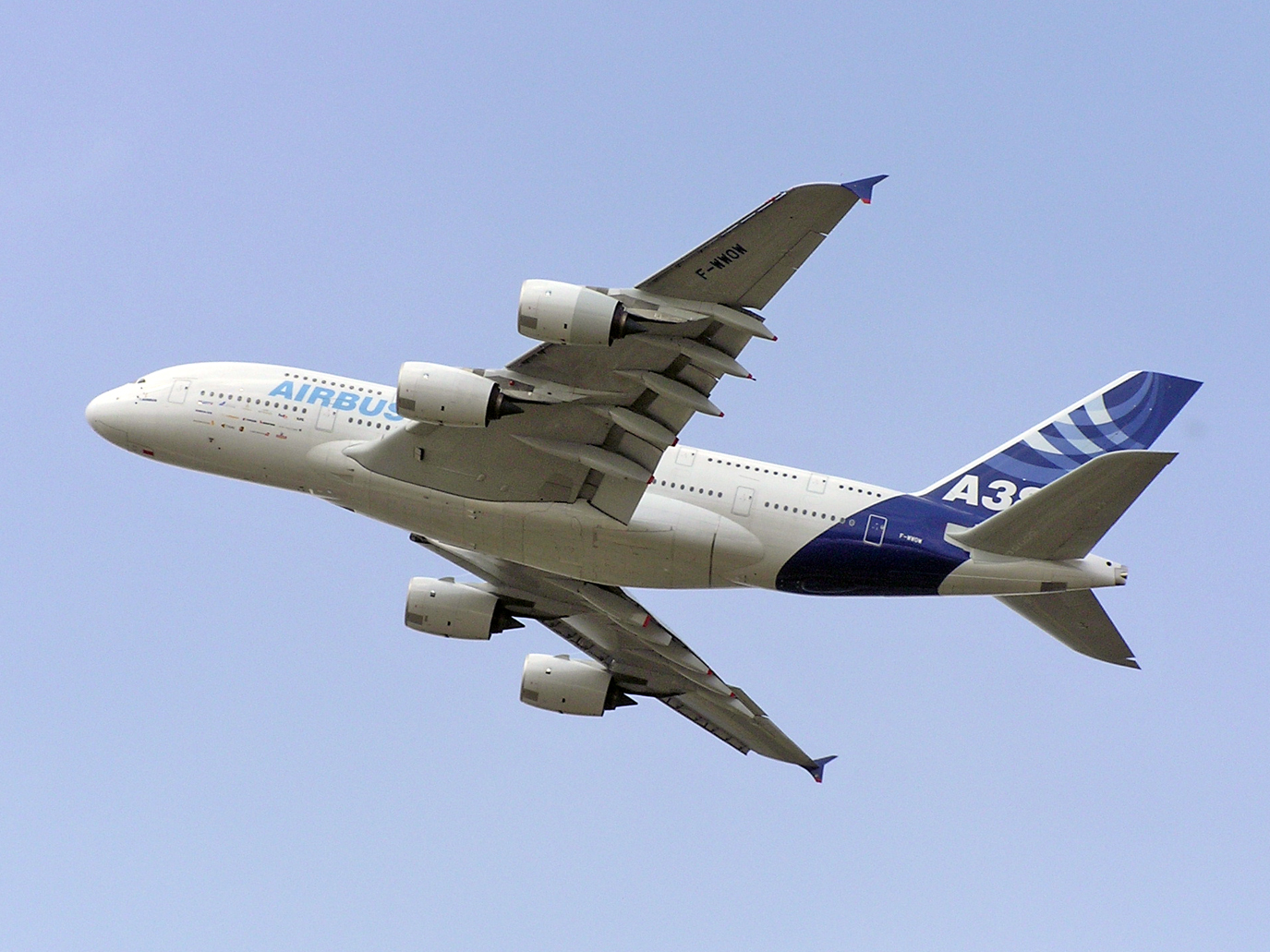 Airbus A380 F-WWOW performing display flight at Farnborough International Airshow